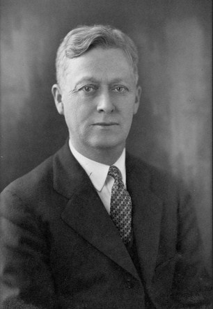 Portrait of C.B.Williams taken in the 1910s